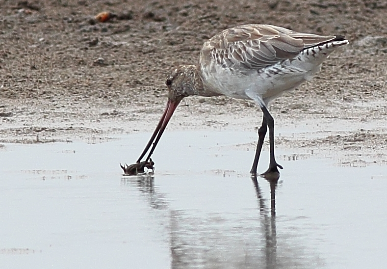 Bar-tailed godwit feeding on tidal mudflats near Toondah Harbour in Moreton Bay